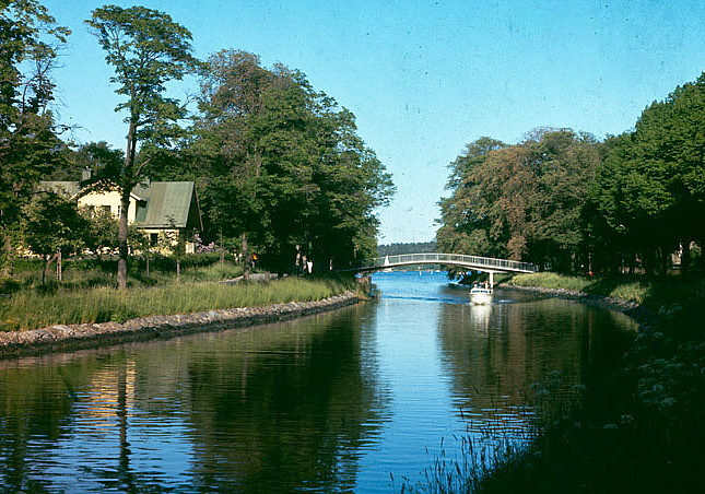 FOTOGRAFIVy österut från Djurgården mot Djurgårdsbrunnskanalen, Villa Johansdal och Lilla Sjötullsbron. 1967-1967FOTOGRAF: Gram, Ingemar (Trädgårdsmästare).BILDNUMMER: DIA 13984Stadsmuseet i Stockholm